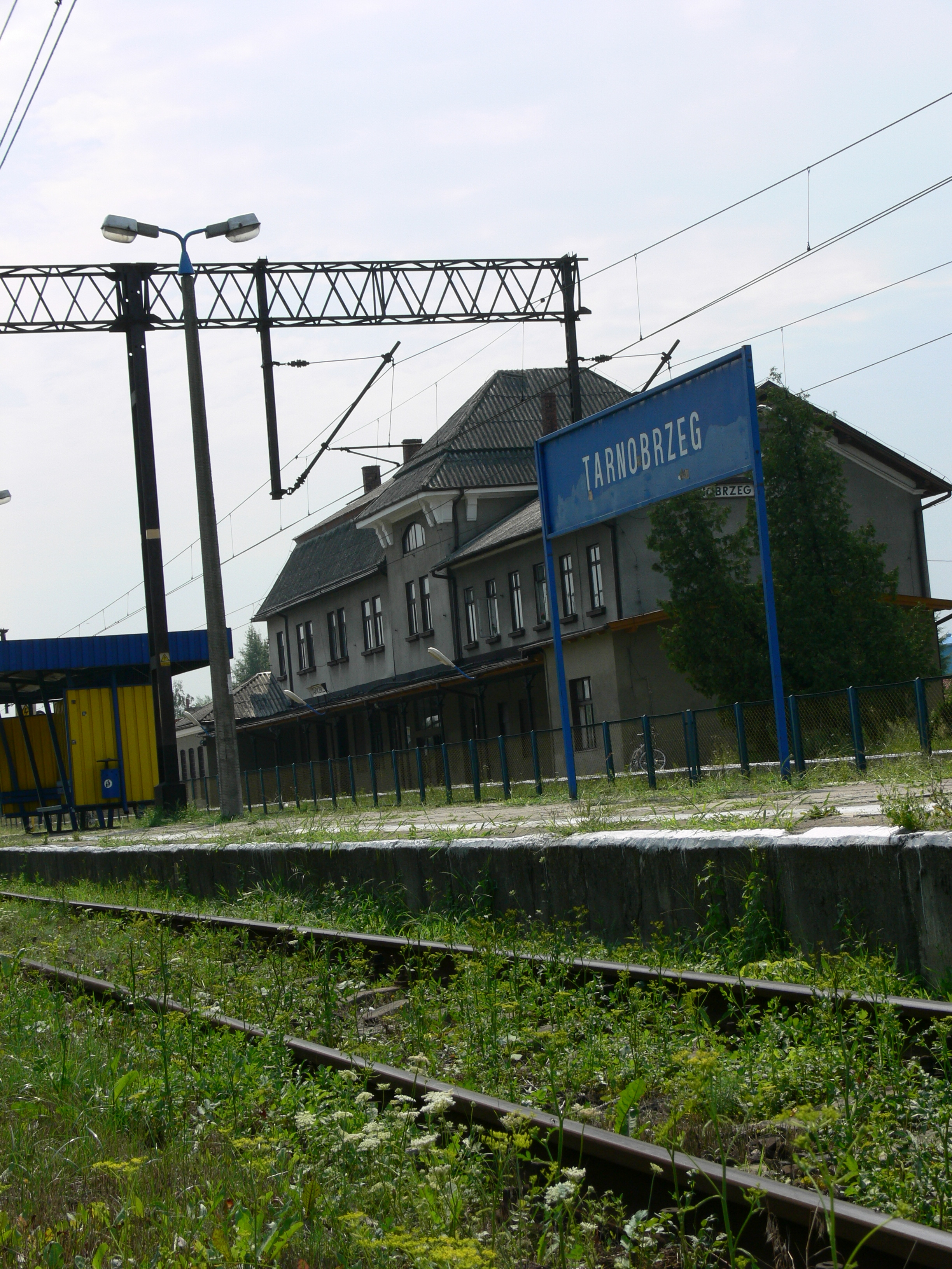 Tarnobrzeg Railway Station